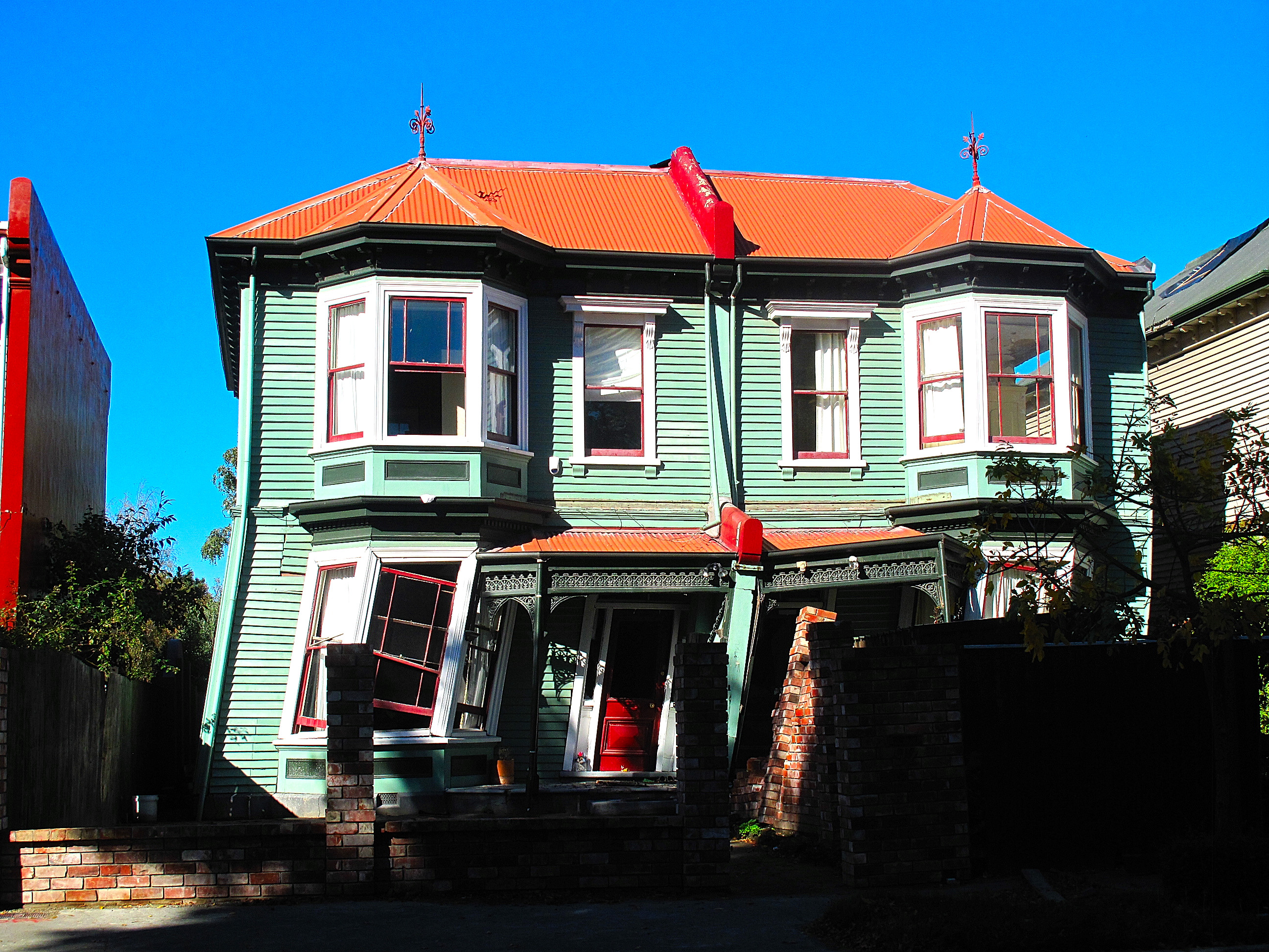 (Tues 29-3-2011) Grand mansion on 90–92 Chester Street, Christchurch, stands bent out of shape after the devastating Tuesday 22 February 2011 magnitude 6.3 earthquake that rocked Christchurch.